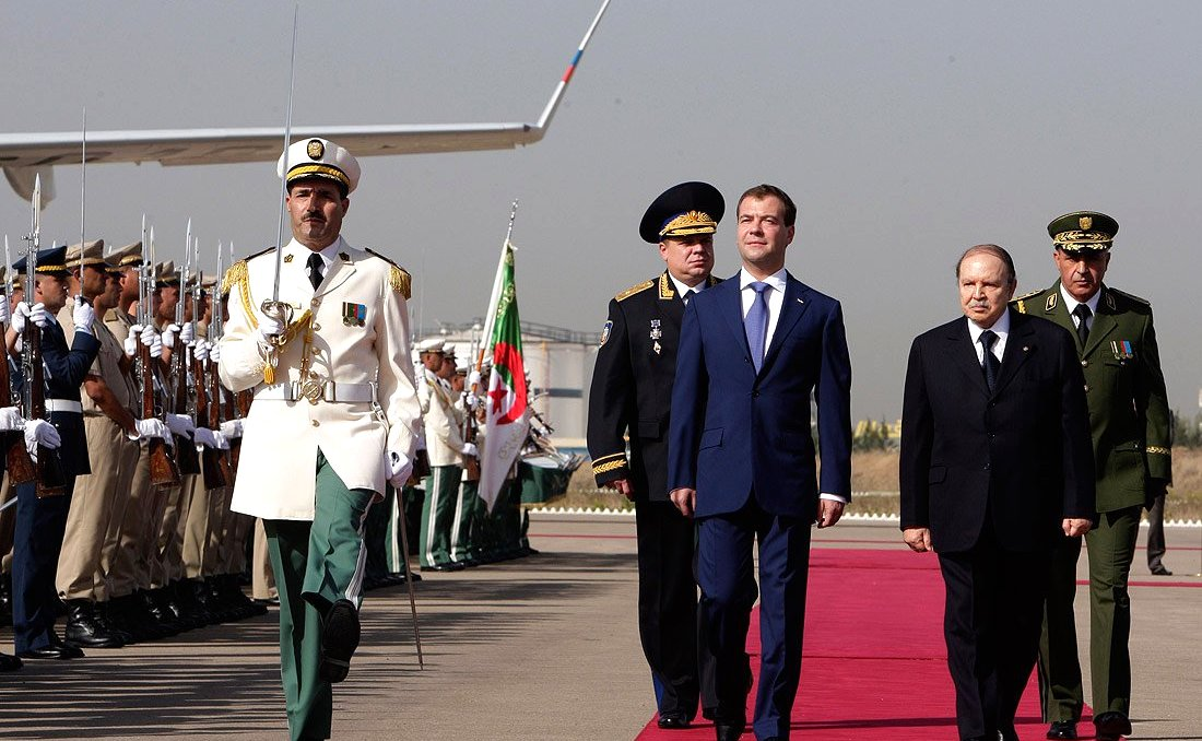 Official ceremony welcoming President of Russia. With President of Algeria Abdelaziz Bouteflika.